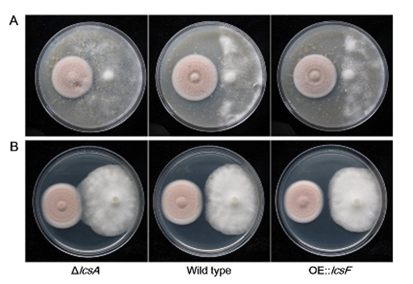 Fig 6. The role of leucinostatins in antagonism between Purpureocillium lilacinum and Phytophthora. (A) Cocultivation of Phytophthora infestans and wild type, ΔlcsA and OE:lcsF P. lilacinum on rye agar medium. (B) Cocultivation of P. capsici and wild type, ΔlcsA and OE::lcsF P. lilacinum on PDA medium.